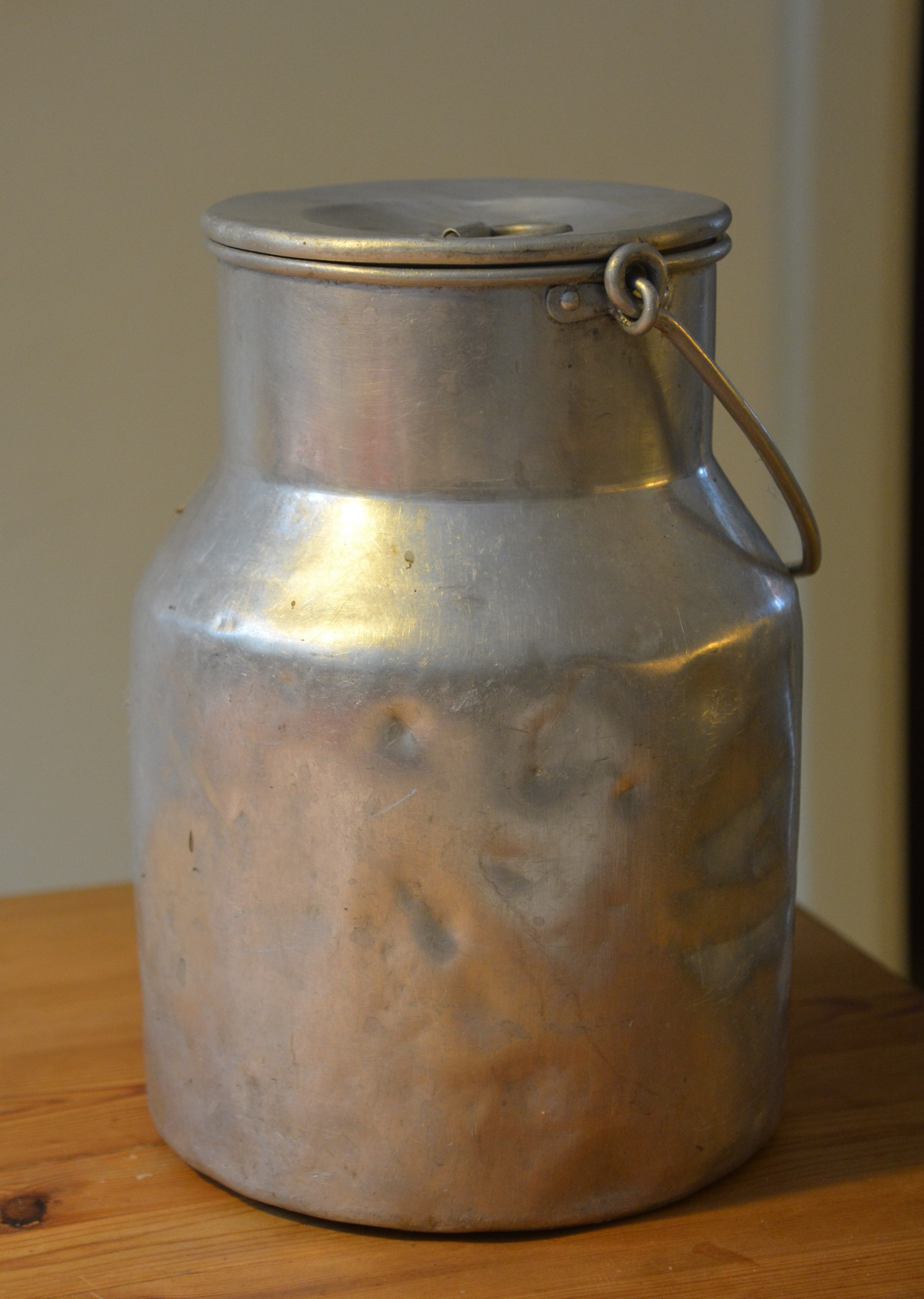 4 litre milk can made of aluminium by Lundin & Lindberg in Eskilstuna, Sweden